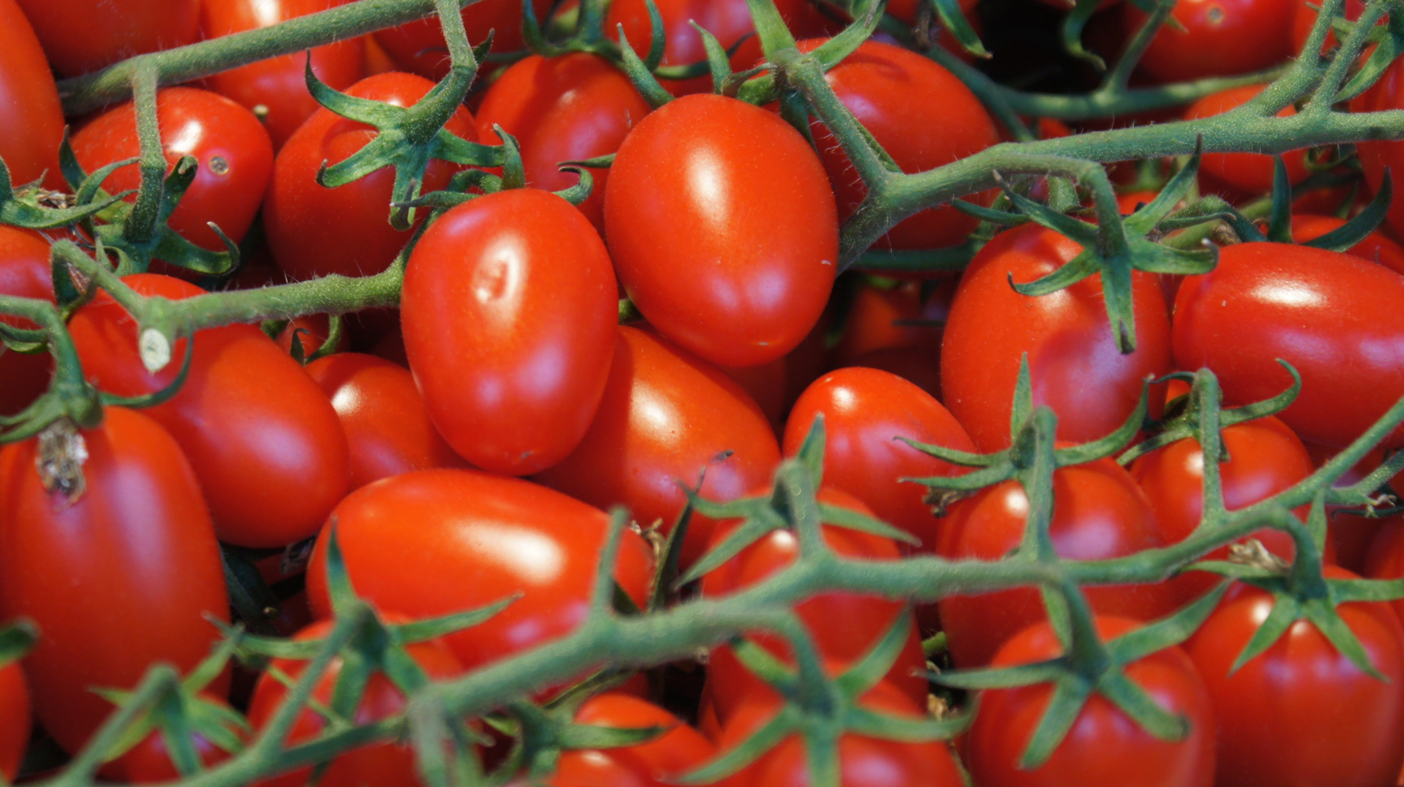 A close-up of ripe, red grape tomatoes on the vine at Ljubljana Central Market